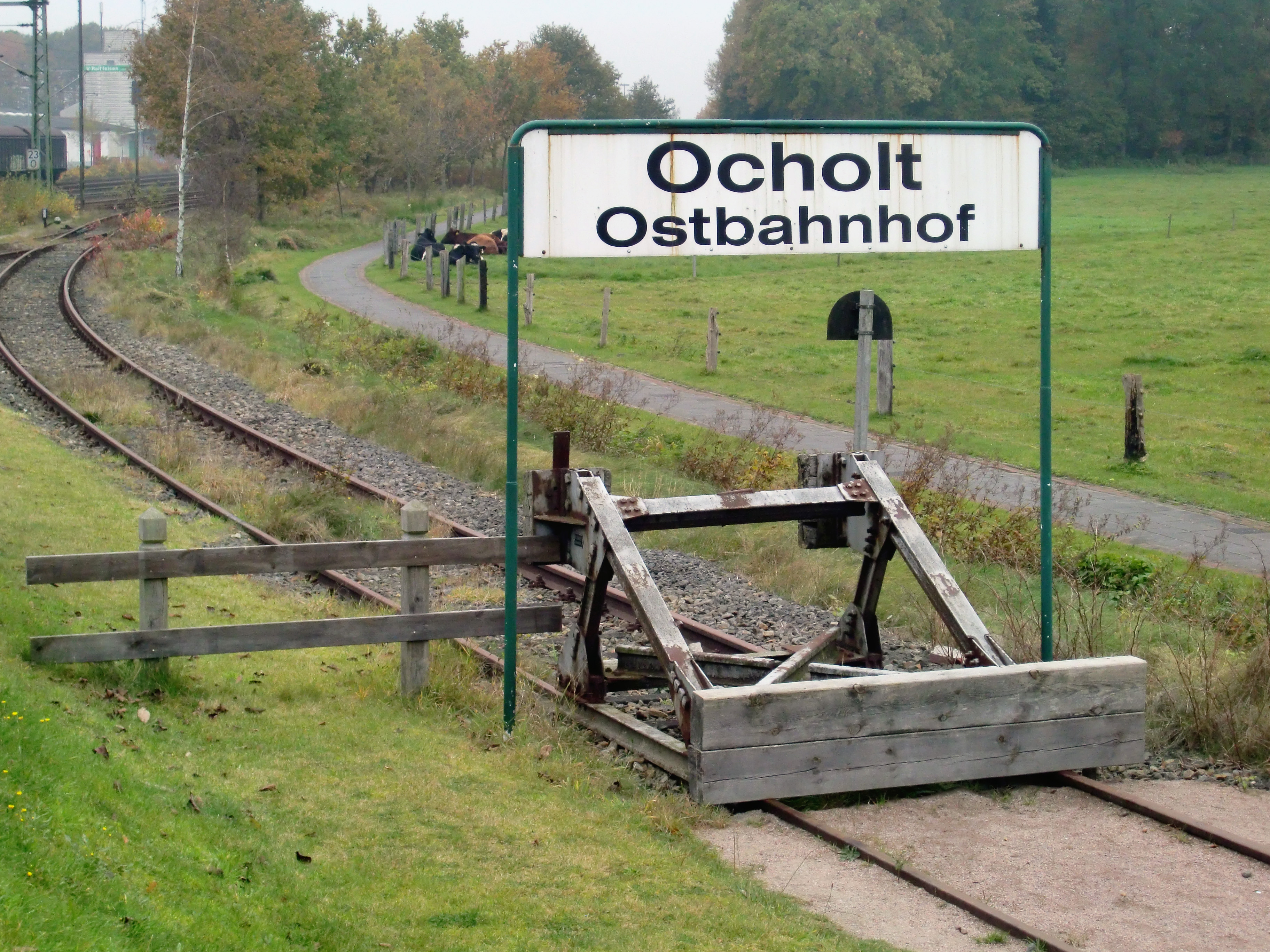 End of the handcar track by the Ocholter east Station.